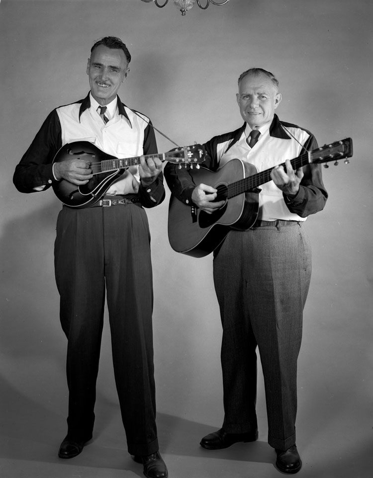 Title: Luke and partner - Luther Baucom (on mandolin) and Reid Summey (guitar), members of the Tobacco Tags Creator: Adolph B. Rice Studio Date: September 14, 1953 Identifier: Rice Collection 181B Format: 1 negative, safety film, 4 x 5 in. Repository: Library of Virginia, Prints and Photographs, 800 E. Broad St., Richmond, VA, 23219, USA, :8881/R